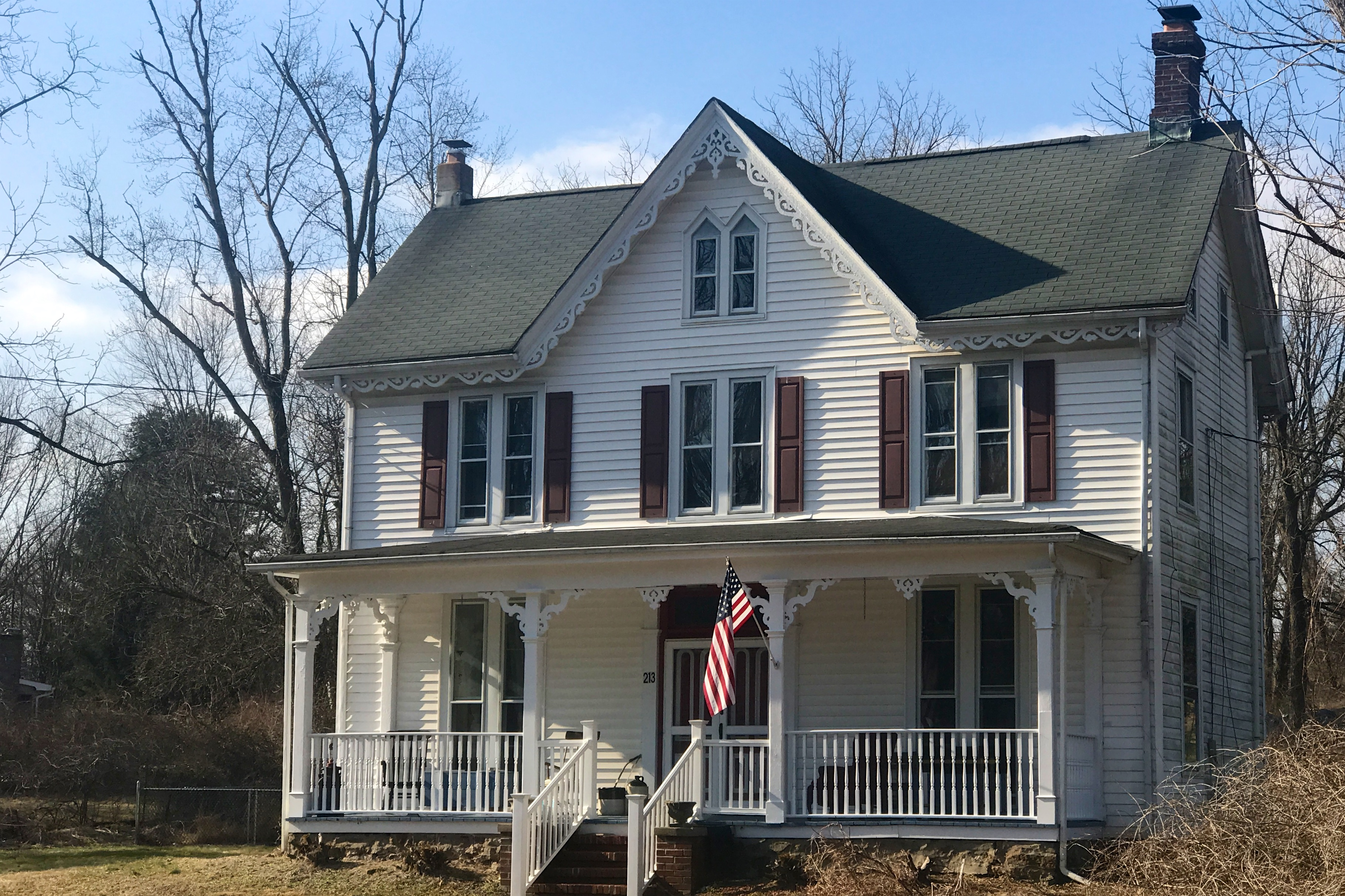 The Valley Presbyterian Church Parsonage in Washington Township, Warren County, New Jersey. Contributing property #1 in the Imlaydale Historic District.